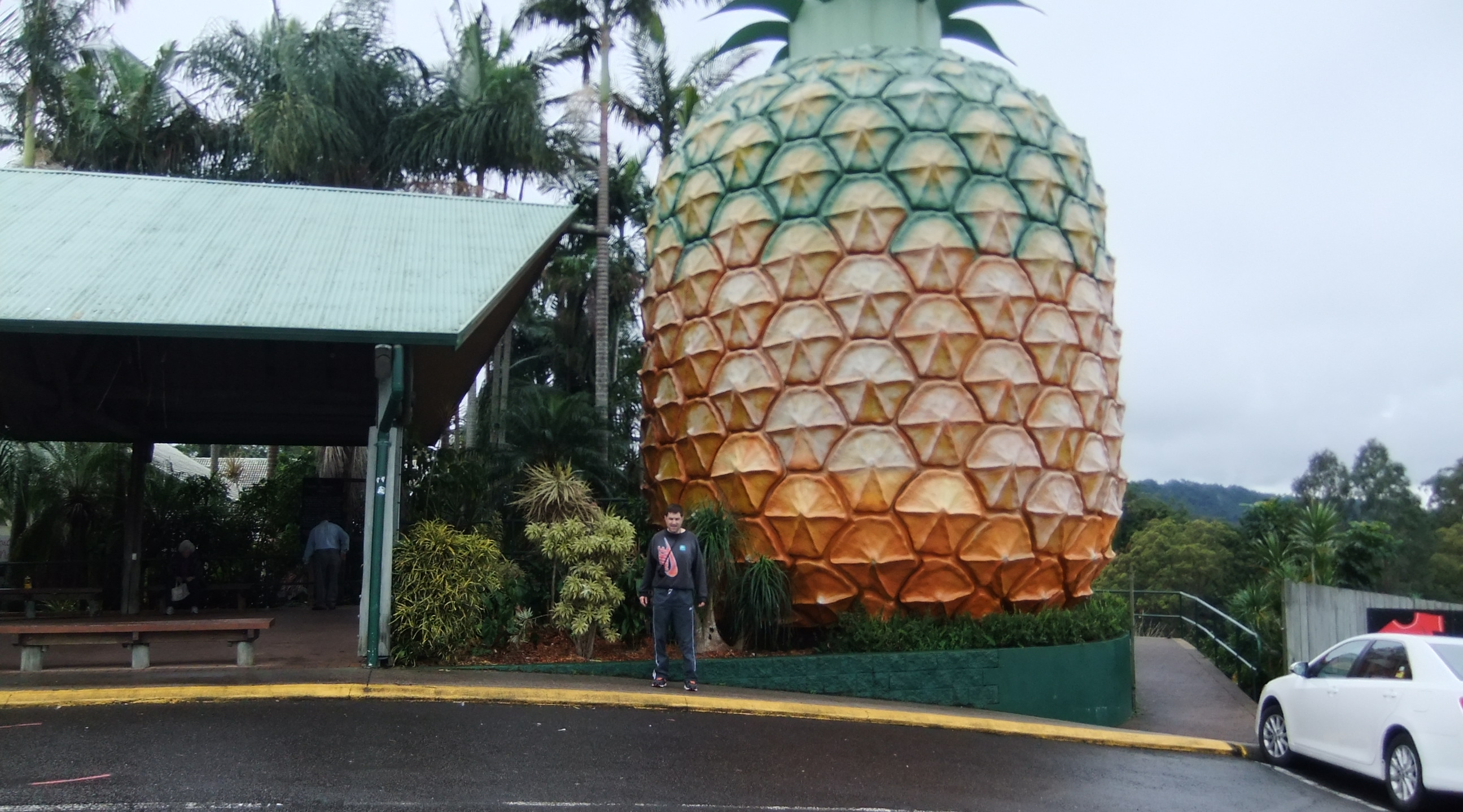 The Big Pineapple - Taken on the Monday, 15th July 2013 at 10am.